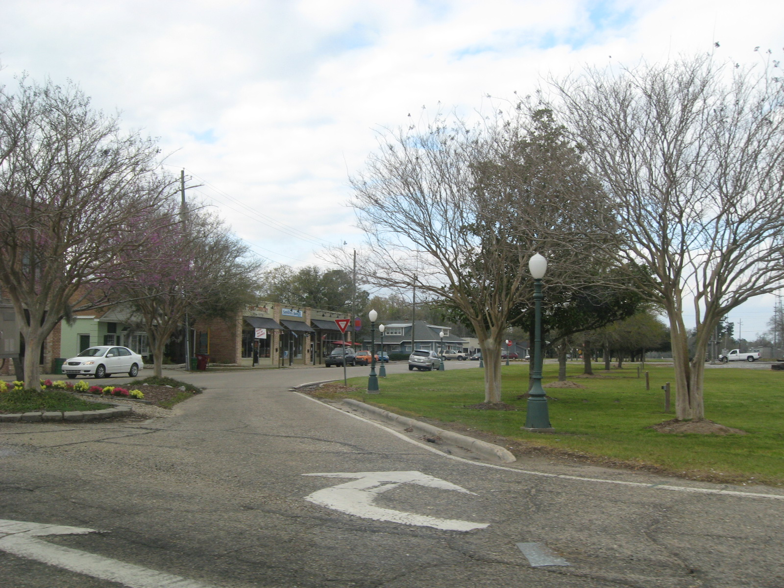 Main Street in Downtown Picayune, Mississippi